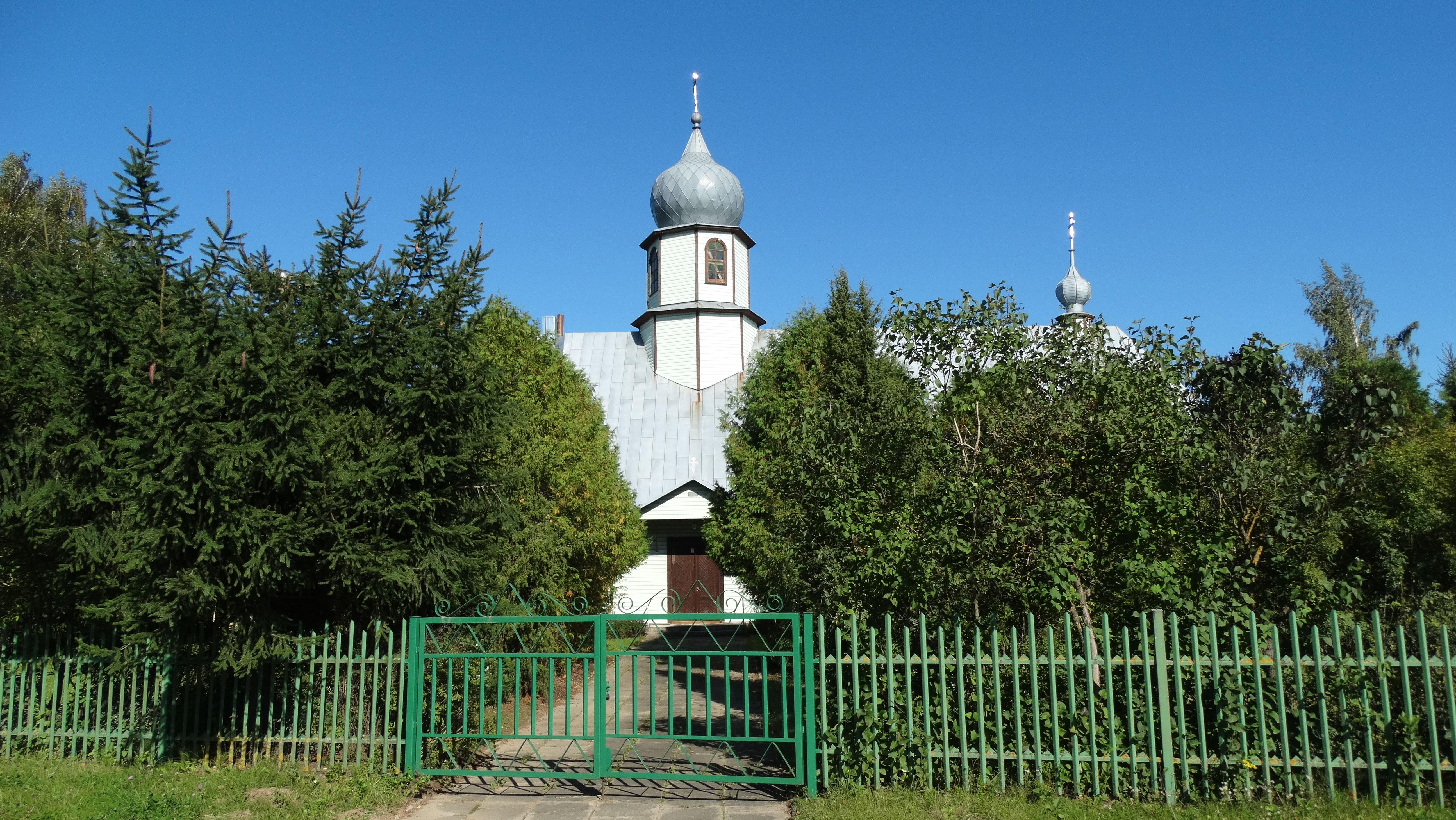 Church of Old Believers, Utena, Lithuania